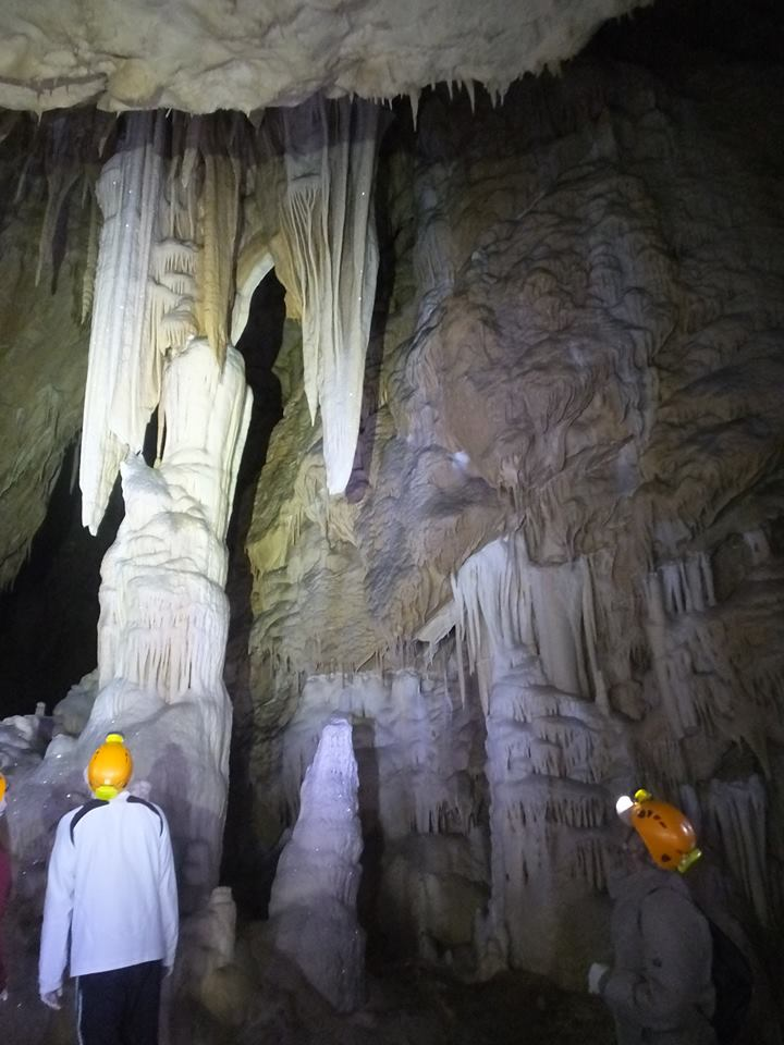 Cave of deer (Mi-ka-El), Pietrasecca di Carsoli, Abruzzo, Italy